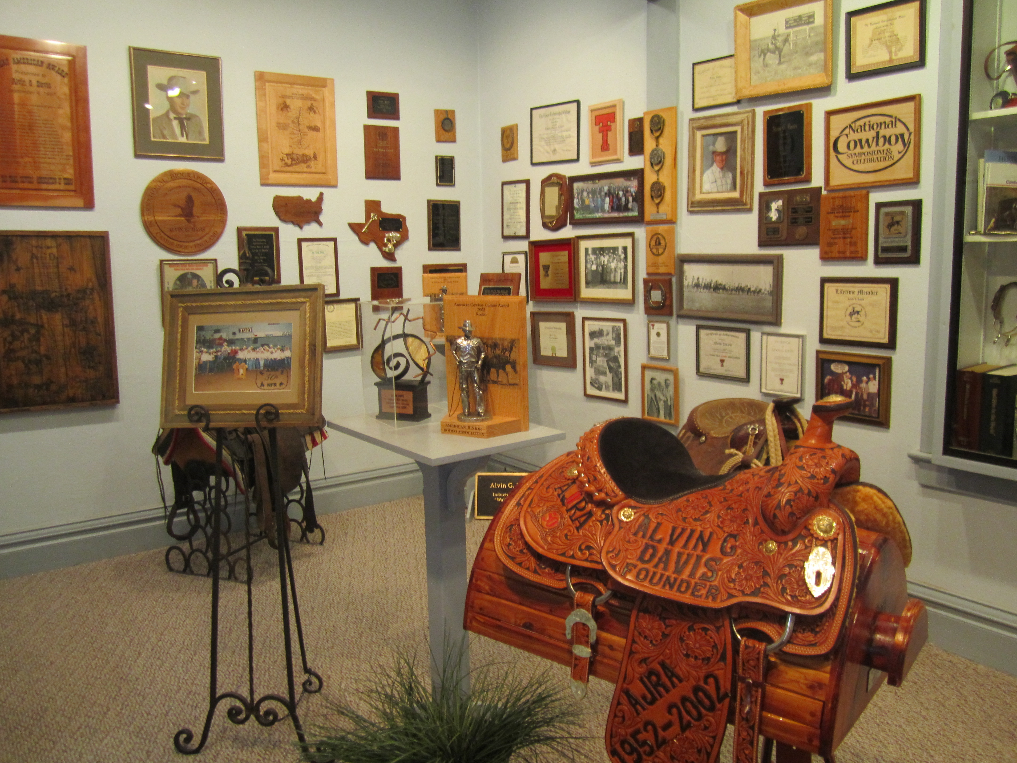 I took photo with Canon camera in Post, TX.